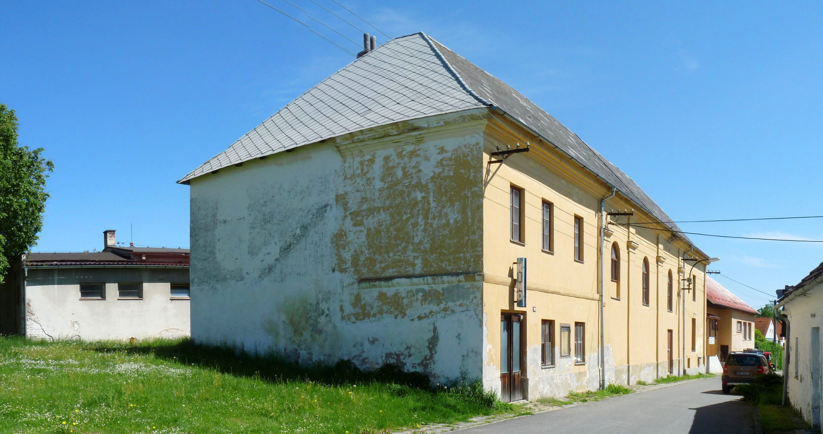 Synagogue in the town of Stádlec, Tábor District, South Bohemian Region, Czech Republic.